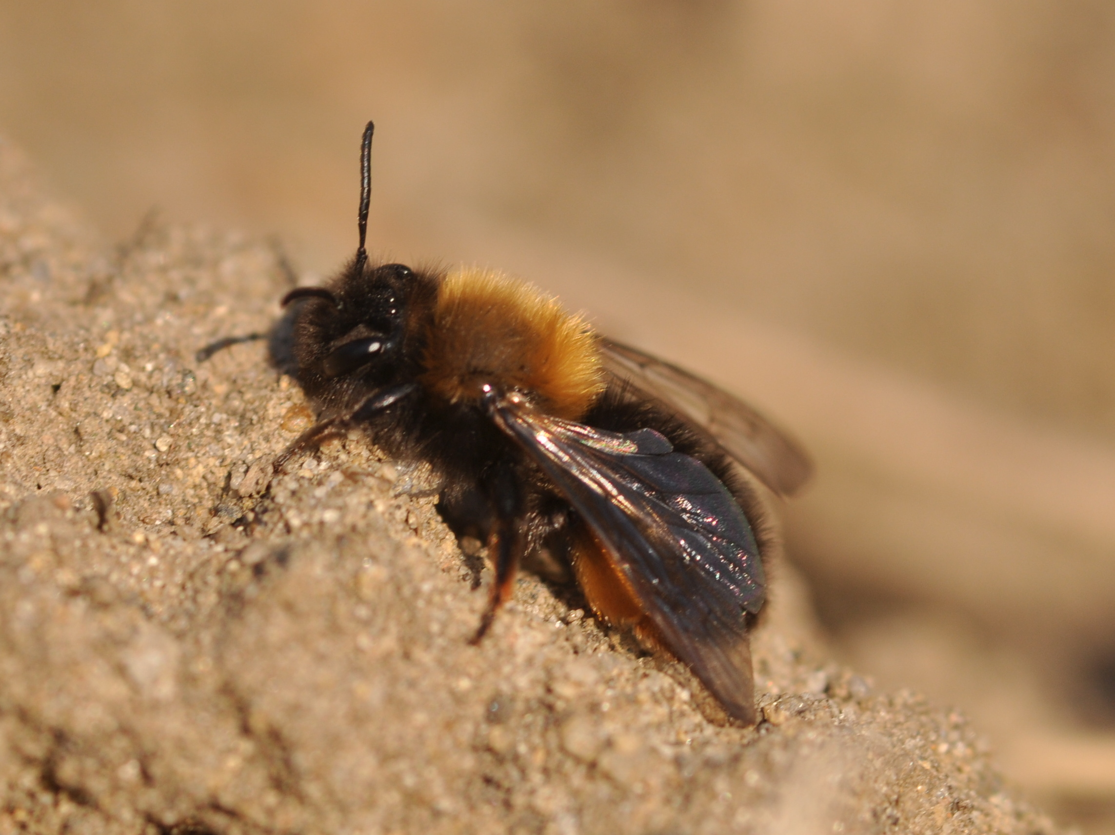 Andrena clarkella female in Kirchwerder, Hamburg.